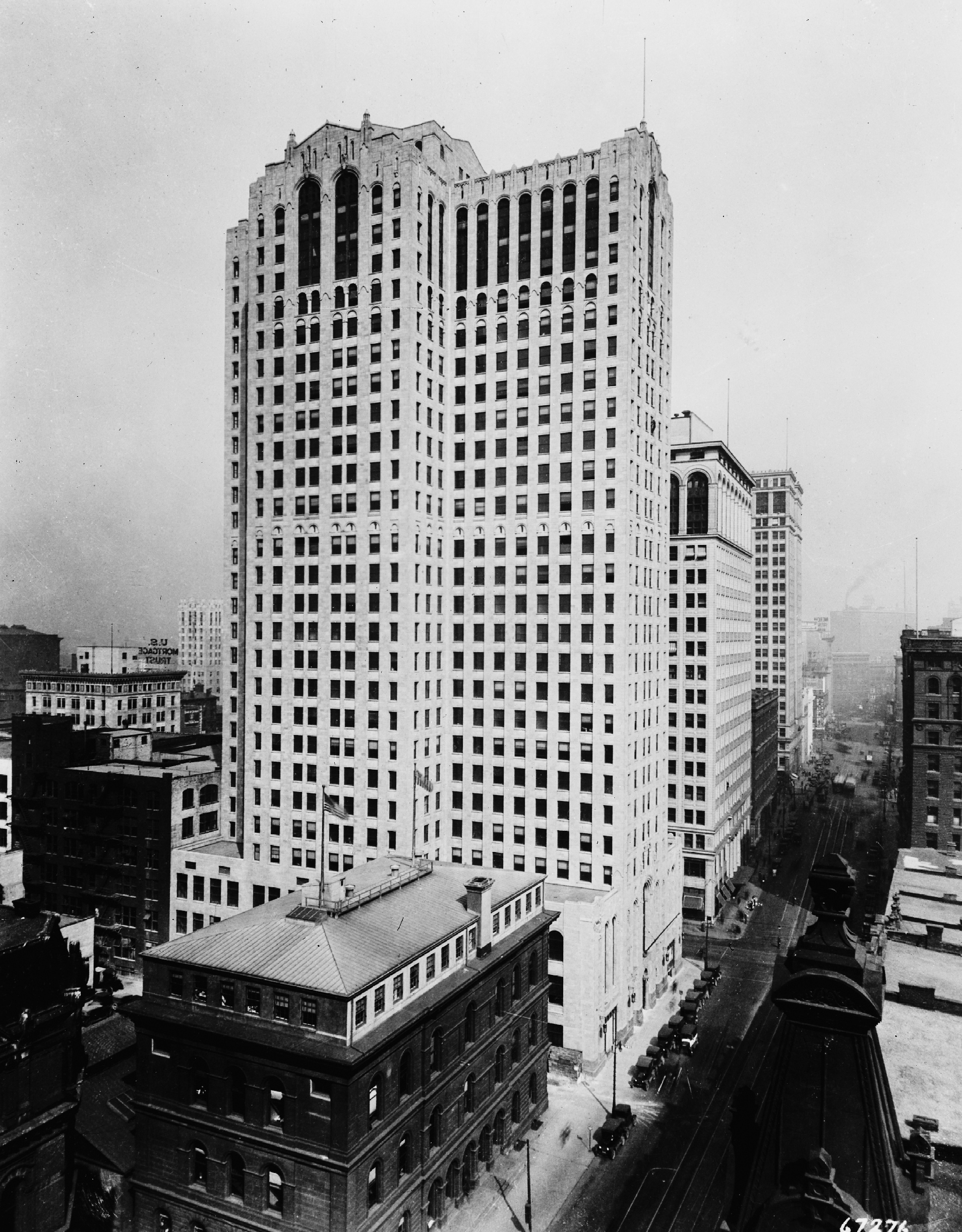 The Buhl Building in the Detroit Financial District, and the Downtown Detroit cityscape.